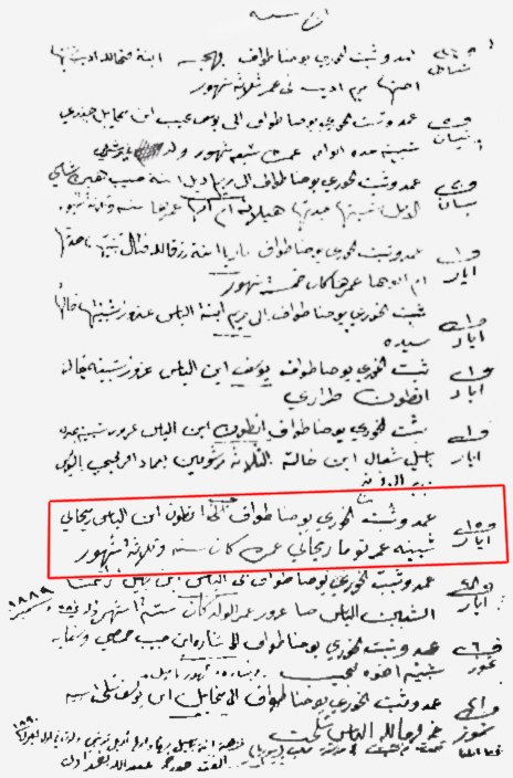 The official document of Naguib el-Rihani baptism on the 15th of may 1889, by priest Yohanna Tawwaf.